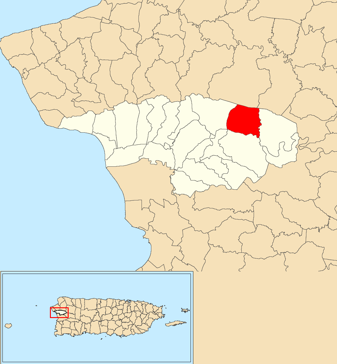 Cerro Gordo, Añasco, Puerto Rico locator map